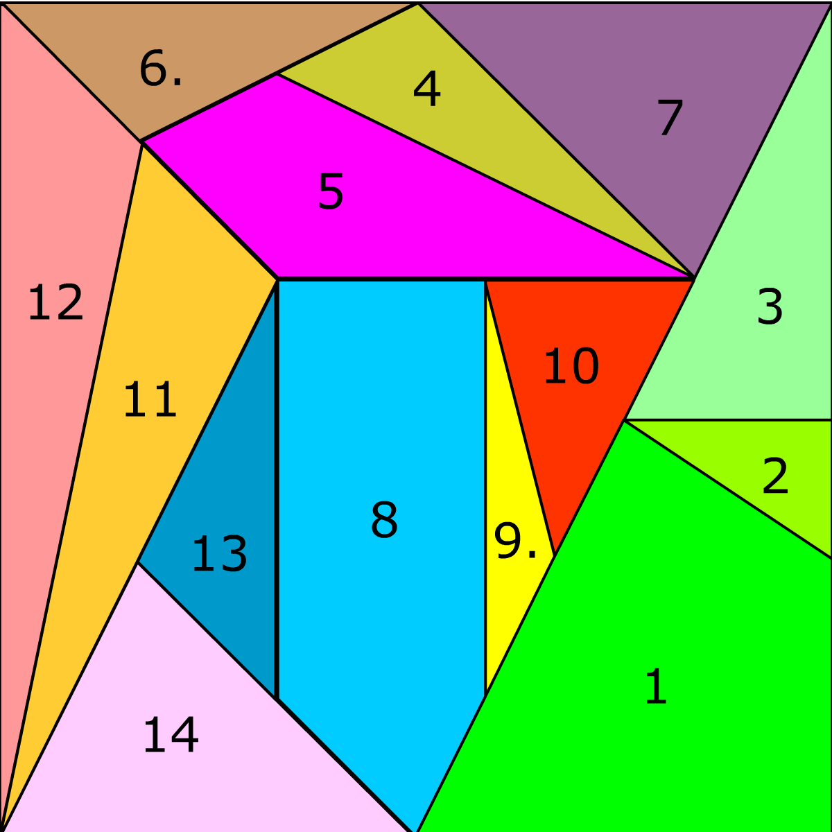 Stomachion